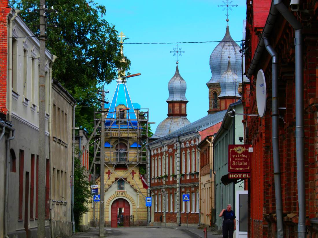 Jēkabpils Jēkaba iela (street) and Holy Spirit Monastery elements